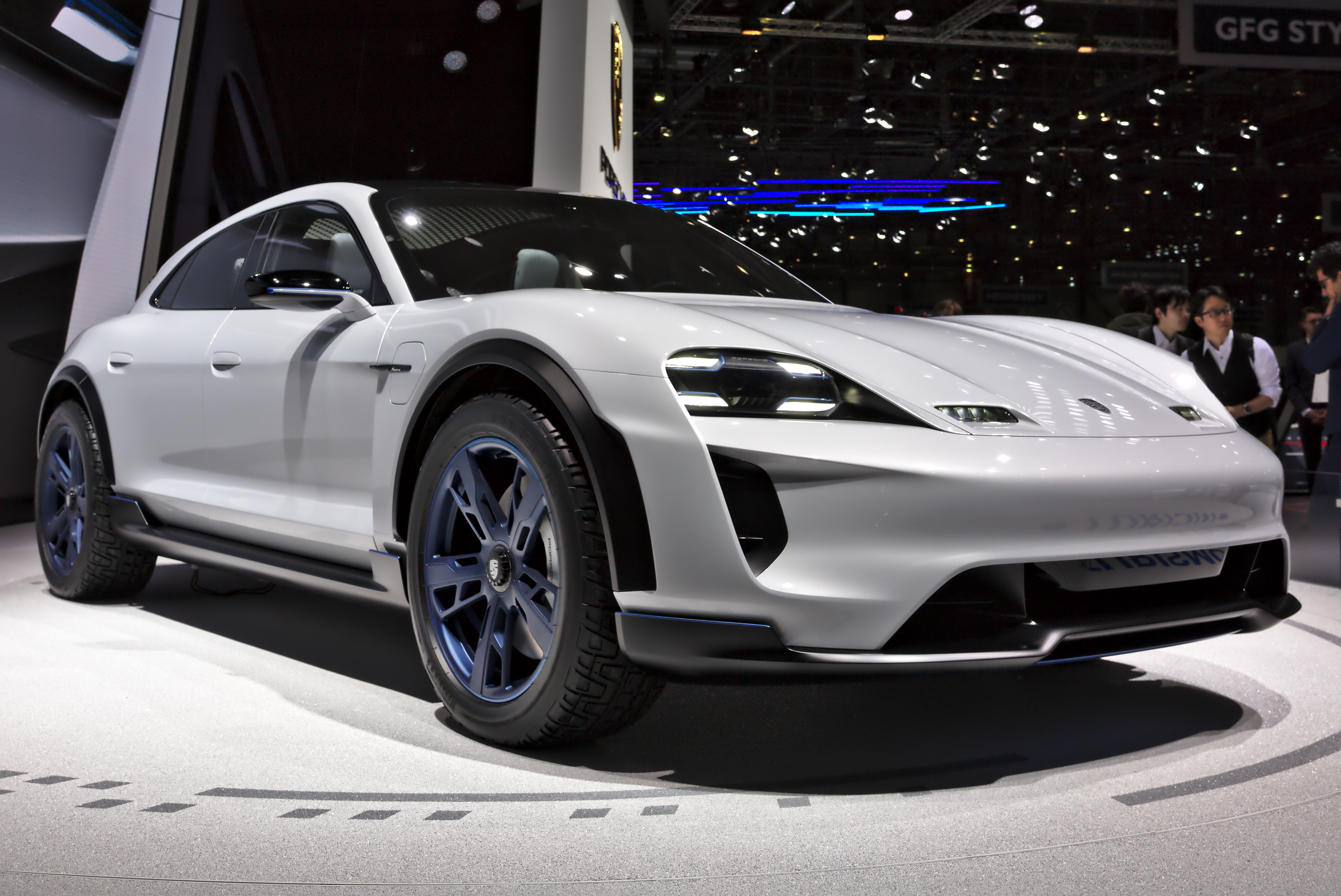 Porsche Mission E Cross Turismo at Geneva Motorshow 2018